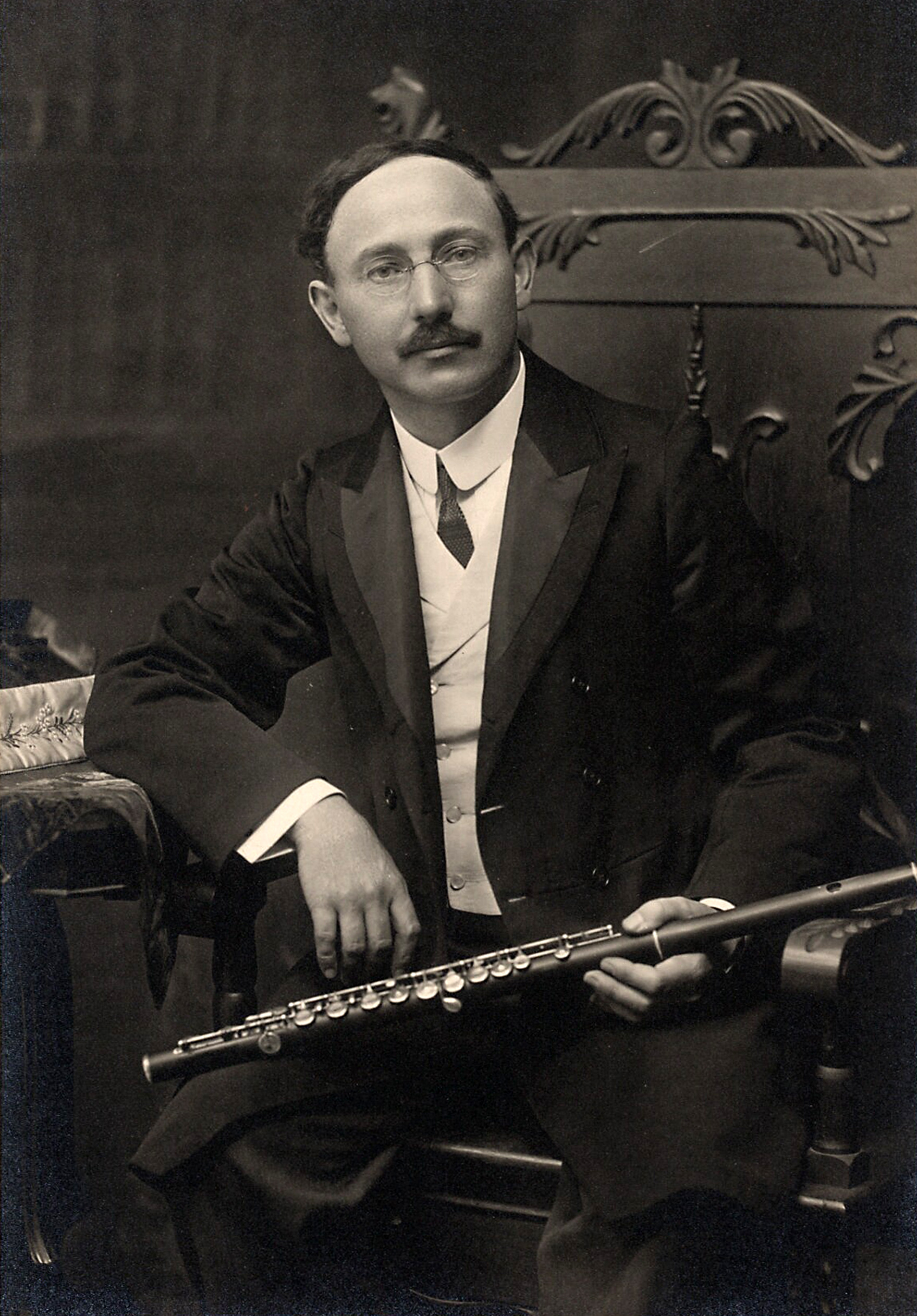 Photograph shows author Leonardo De Lorenzo (1875-1962).